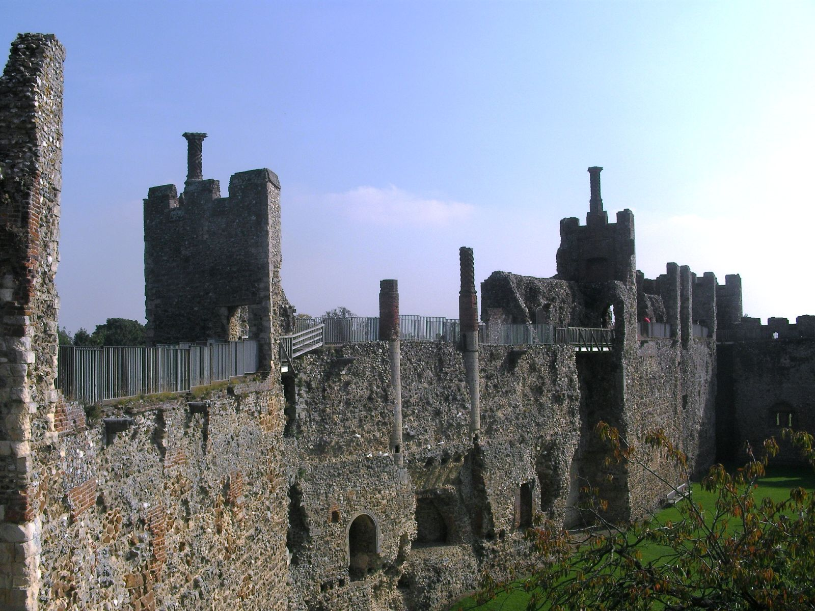 Walls at Framlingham Castle